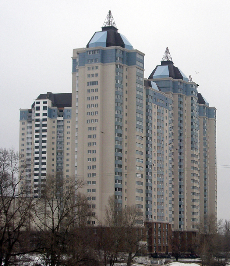 Русановка